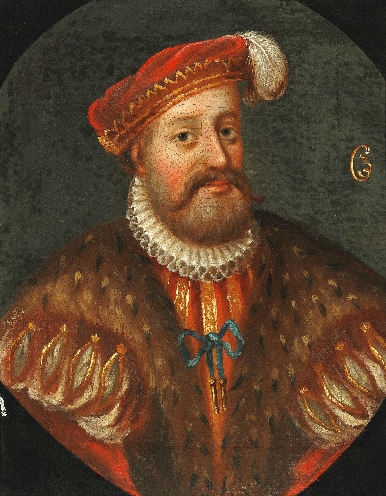 Christian III (1503-1559), King of Denmark (1534-1559), King of Norway (1537-1559), Duke of Holstein and Schleswig (1523-1559)